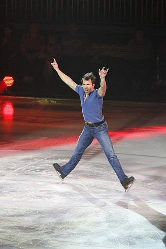 Stars on Ice in Manchester 2010.